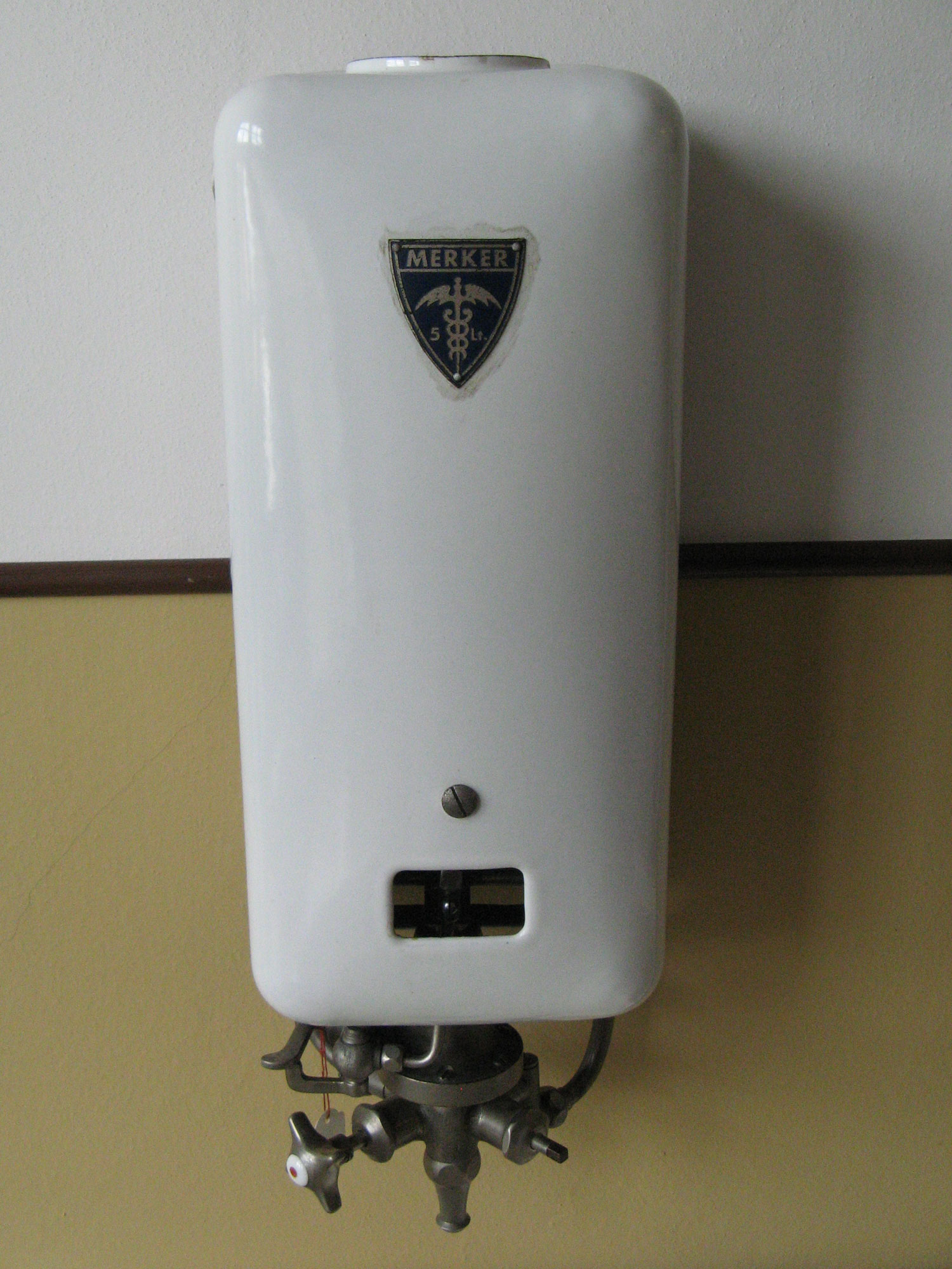 Fuel gas driven continuous-flow water heater with pilot flame. Make Merker AG manufactured in the the 1930's.